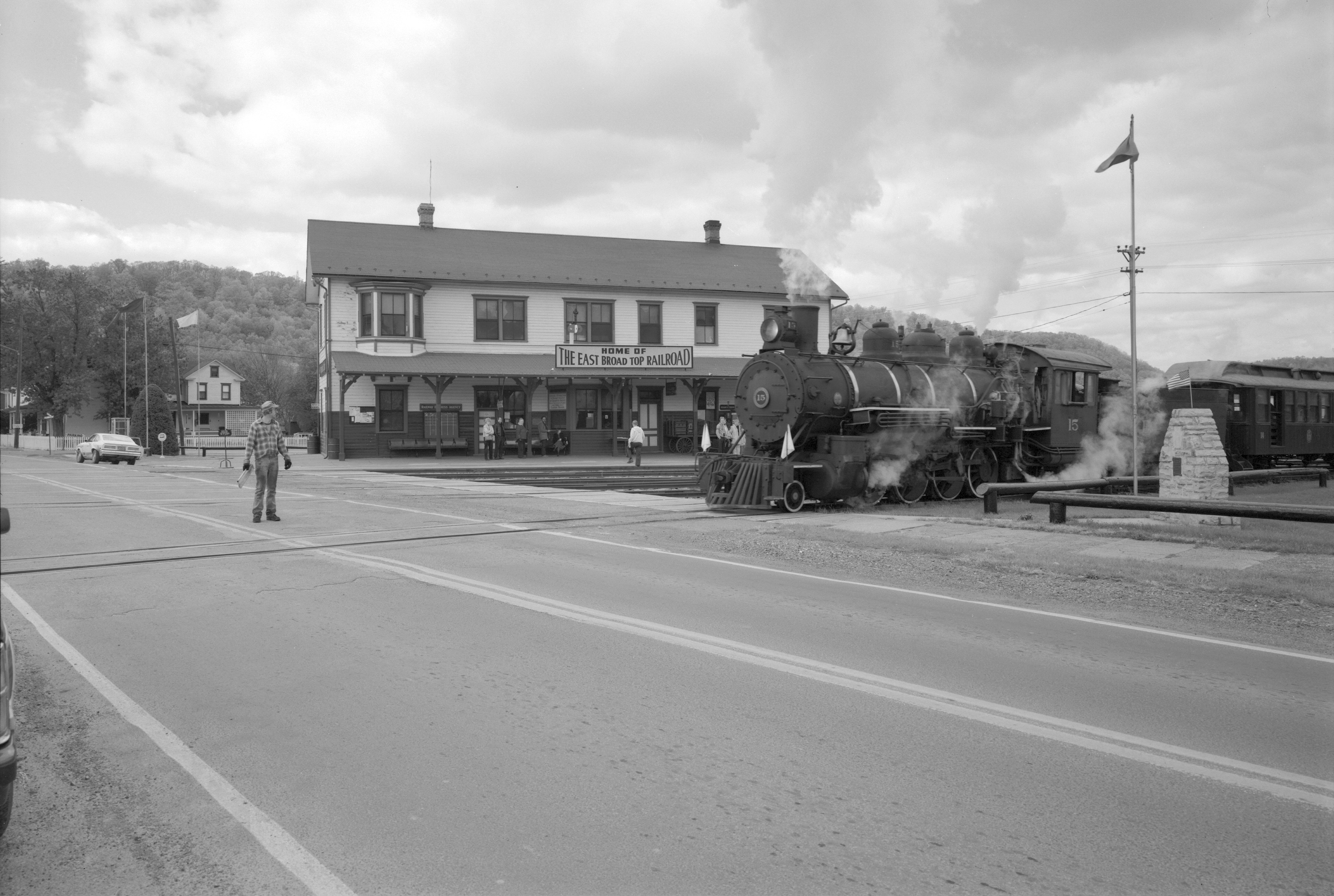 East Broad Top Railroad & Coal Co. 2-8-2 steam locomotive #15 in front of the railroad's Orbisonia Depot.